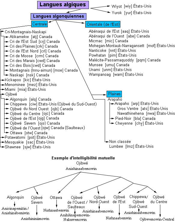 Language Family Trees of Algonquin language and the subgrouping of Anishinaabemowin dialects based on lexical innovations and mutual intelligibility (rather than morphology or pronunciation), according to Evelyn Todd and Richard Rhodes.